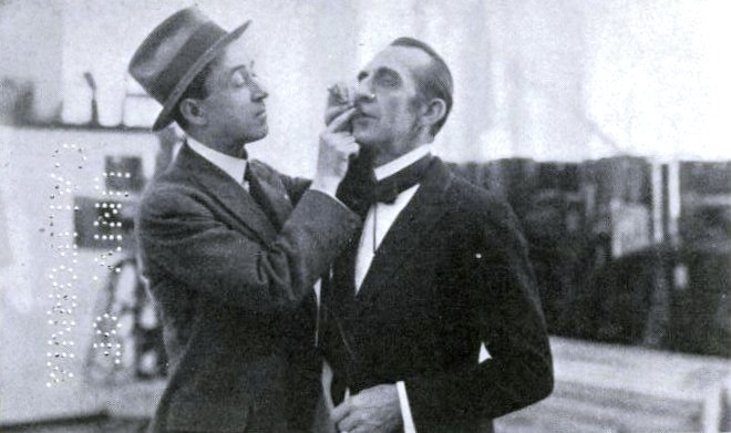 Director John Emerson adding a moustache to actor Frank Stockdale (1870–1950), published next to page 34 in Breaking into the movies, 1921, John Emerson and Anita Loos, G. W. Jacobs. on the set of the film Red Hot Romance (1922).